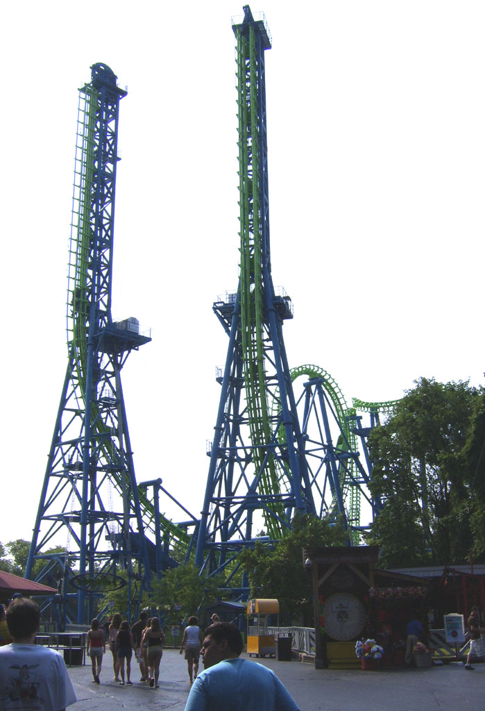 Deja Vu roller coaster at Six Flags over Georgia Category:Images of roller coasters Today it's now called Aftershock at Silverwood Theme Park in Athol, Idaho